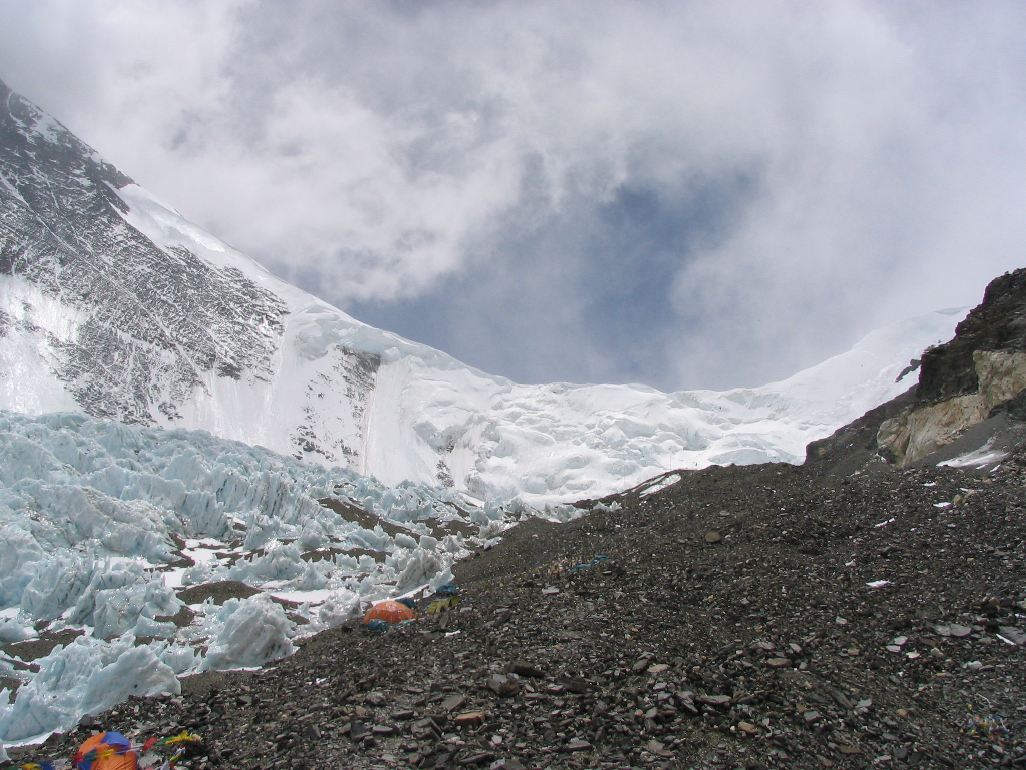 Taken by Chris Searl April 2005 at Everest Advanced Base Camp Tibet Autonomous Region, China